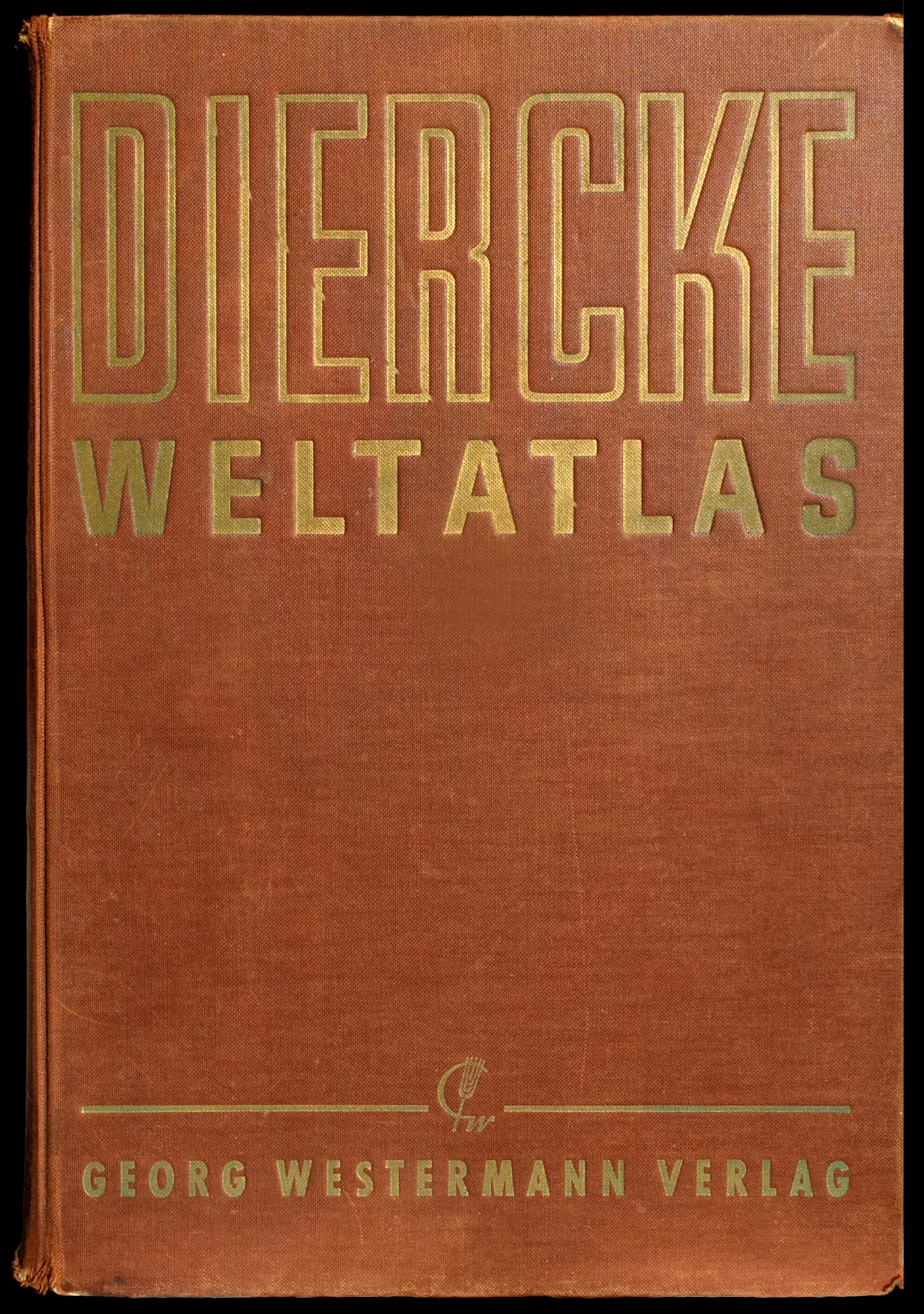 Cover of the 139th edition (51th of the revision edition) of the Diercke Weltatlas from 1968 with strong signs of use.